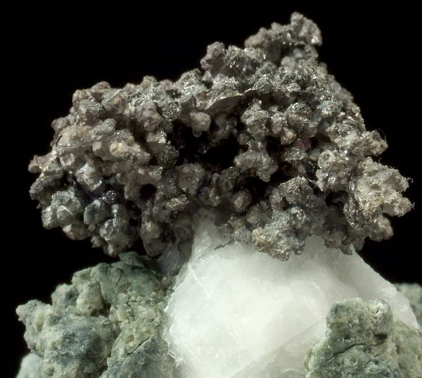 Safflorite and Calcite (Size of specimen 2 cm) Locality: Bouismas Mine, Bouismas, Bou Azzer District, Tazenakht, Ouarzazate Province, Souss-Massa-Draâ Region, Morocco Description: Rare crystallized safflorite from find in 2009 - small pocket in Bouismas mine.